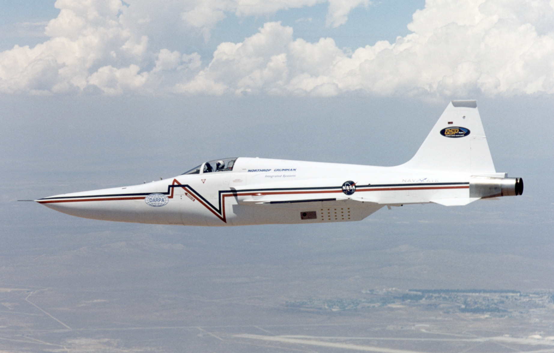 Northrop Grumman Corporation's modified U.S. Navy F-5E Shaped Sonic Boom Demonstration (SSBD) aircraft.